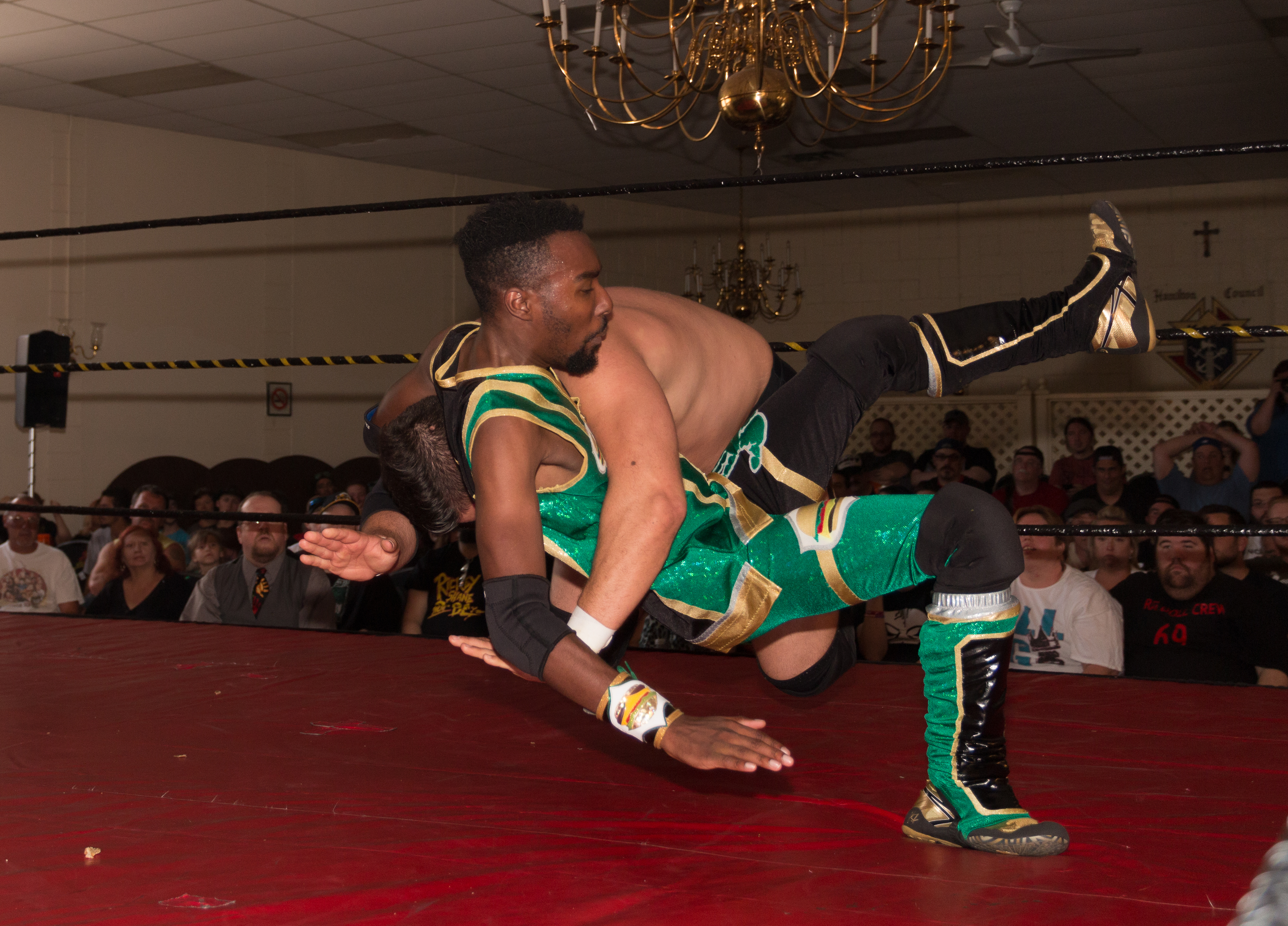 Cheeseburger executing a DDT on Ethan Page at Alpha-1 Wrestling's "The Purge" show in Hamilton, ON